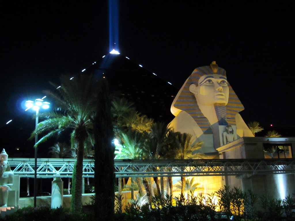 During the night the 315,000 watt light beam atop pyramid-shaped Luxor Las Vegas can be seen 200 miles away.